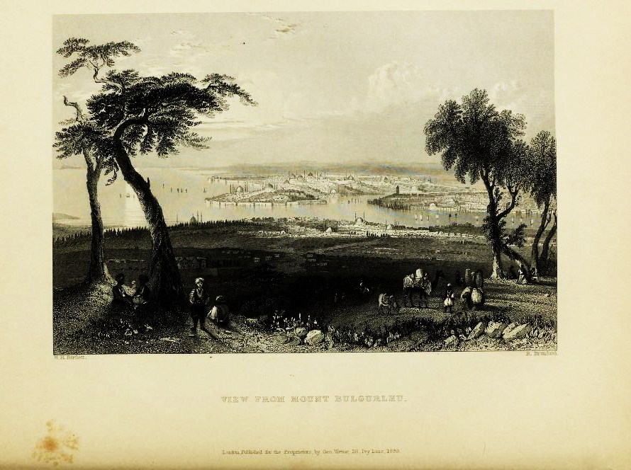 Bulgurlu,Üsküdar between 1809-1838